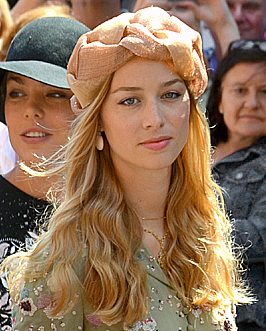 Many guests had been coming on July 8, 2017 into the Marktkirche, Hanover to the wedding of Ekaterina Malysheva and Ernst August Prinz von Hannover ...